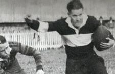 Jimmy Sharman jnr playing Rugby league for Western Suburbs Magpies